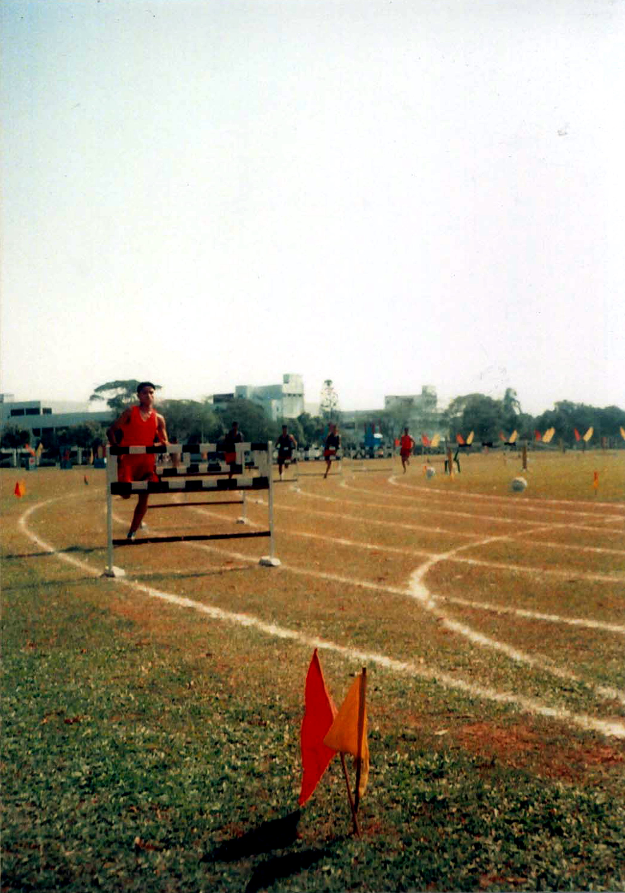 A cadet turned athlete competes in 400 m hurdles